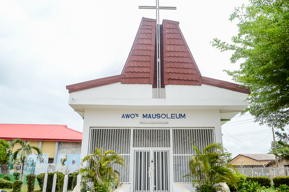 Late Chief Obafemi Awolowo Mausoleum